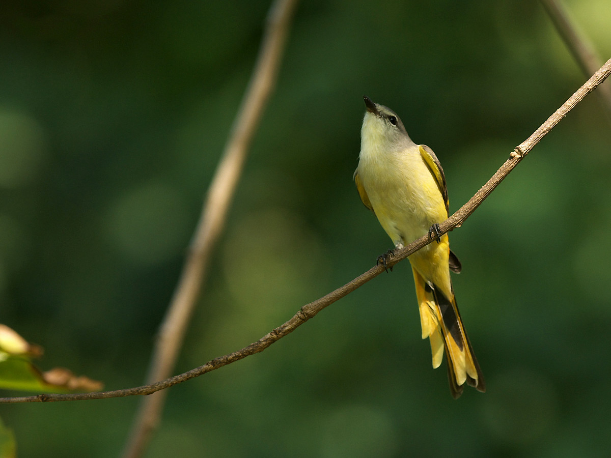 Female, taken at King Rama IX Park, Bangkok, Thailand.